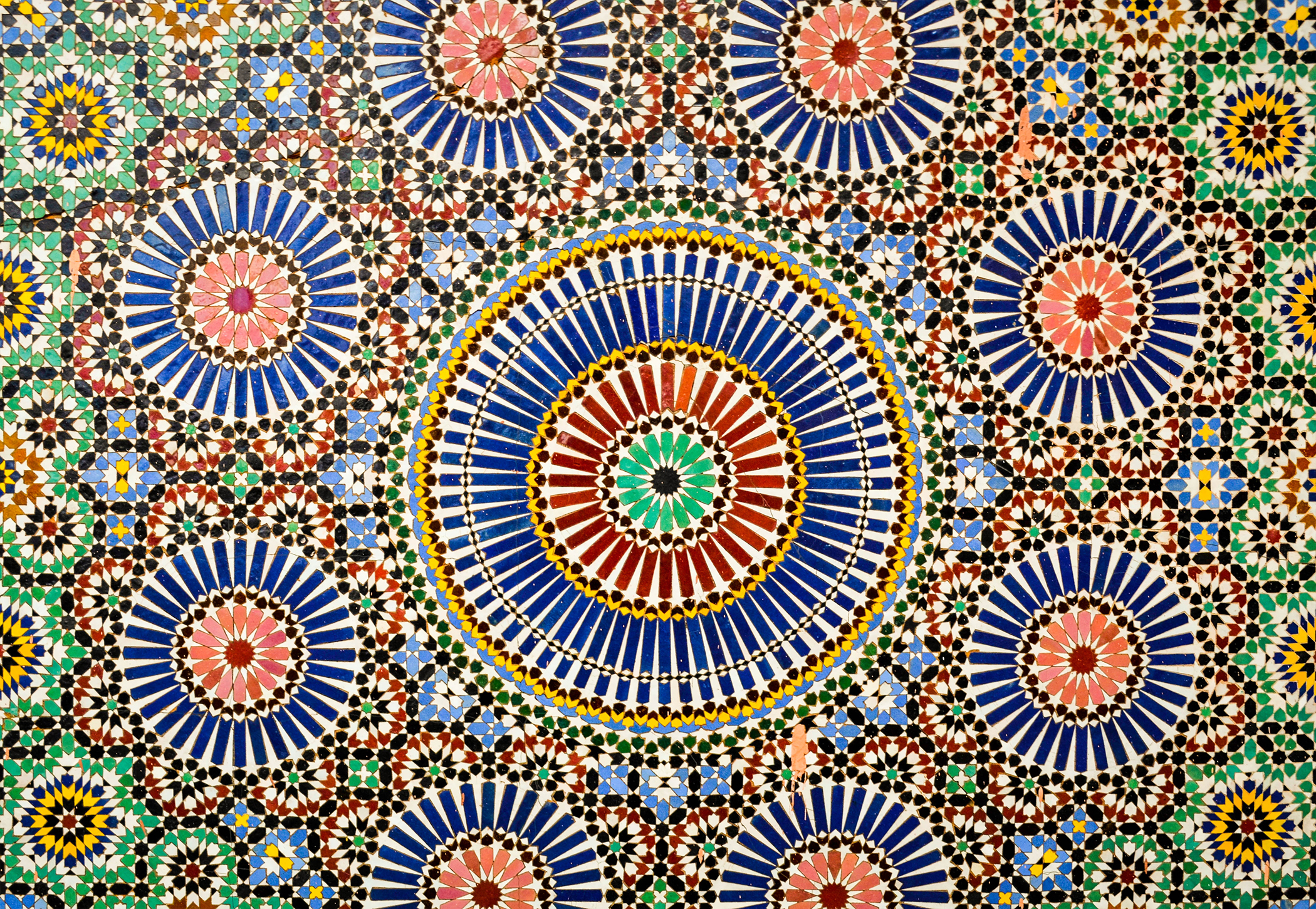 Islamic geometric patterns, Marrakesh Museum